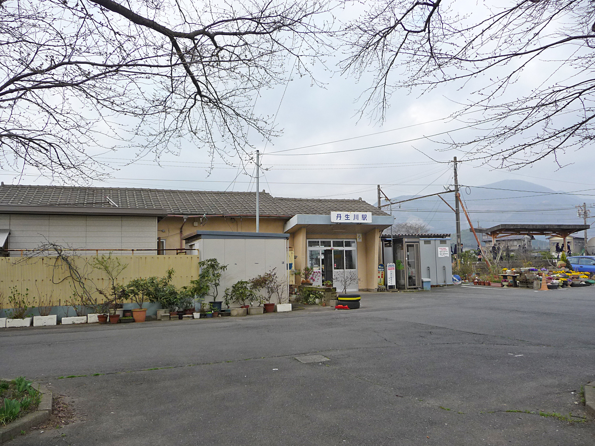 Nyugawa Station,Sangi Railway.